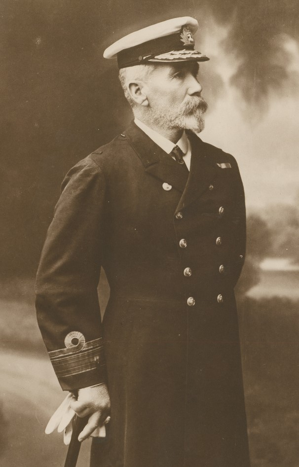 Portrait of William Rooke Creswell.